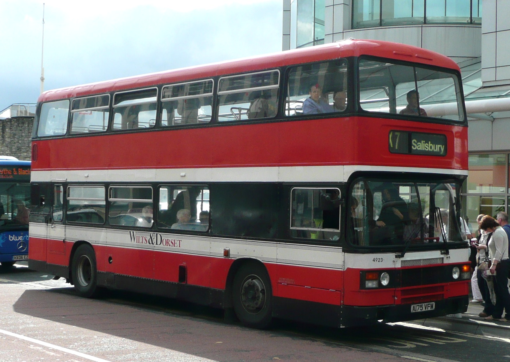 Wilts & Dorset's 4923 (A175 VFM), an early Leyland Olympian, in Portland Terrace, Southampton on route X7.